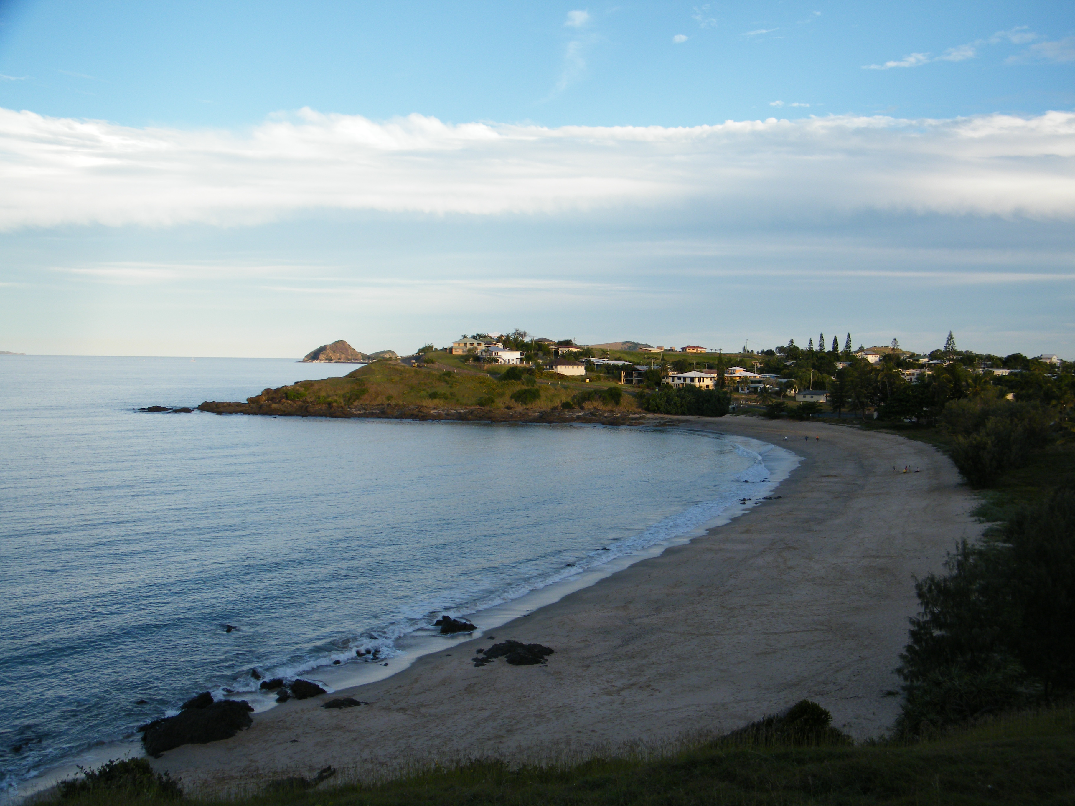 Photo of Cooee Bay, looking south to Wreck Point. In the distance is the Double Head at Rosslyn Bay.